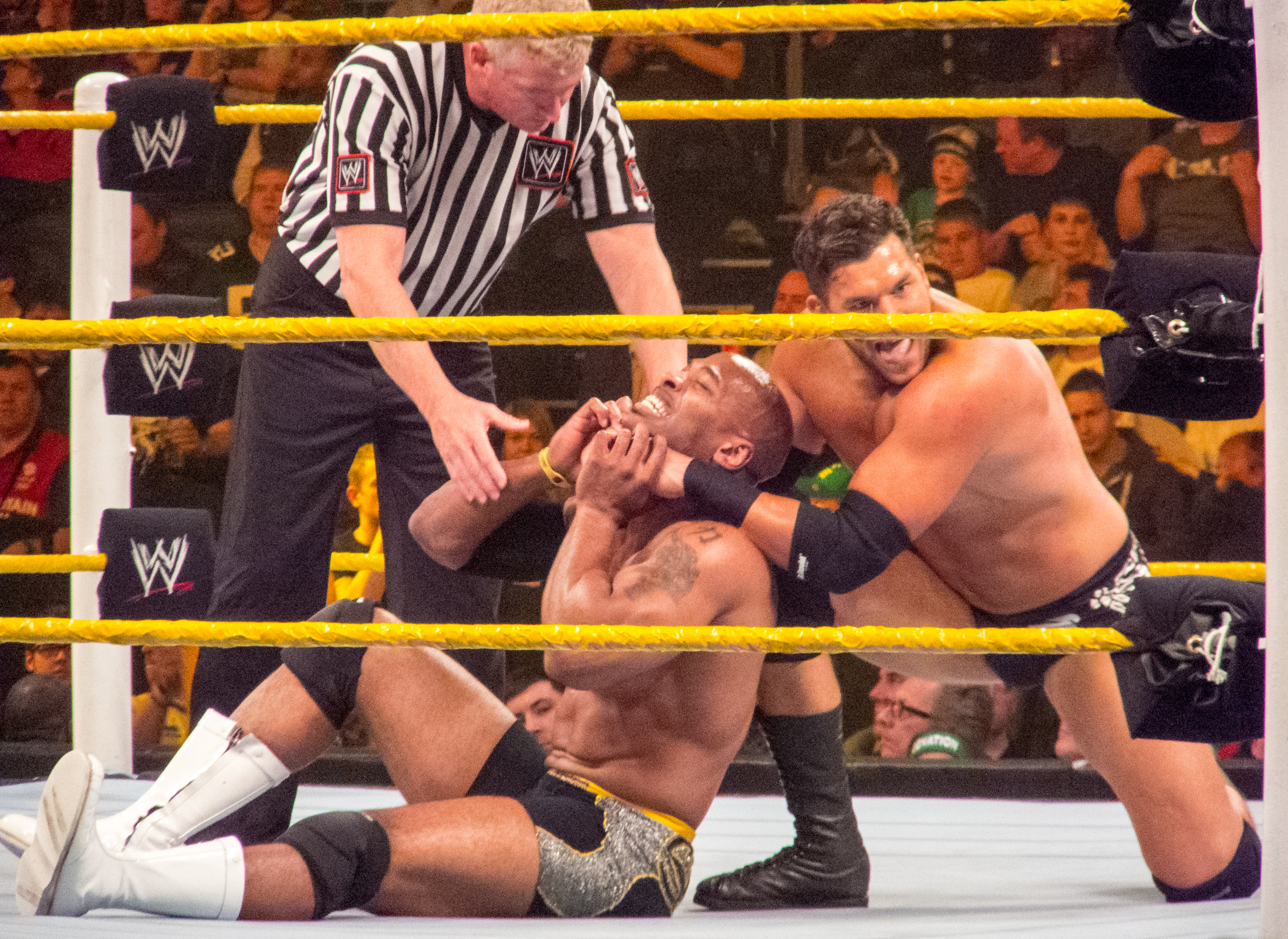 Percy Watson struggles in Johnny Curtis' grip at a WWE NXT taping in London, England on 17 April 2012.